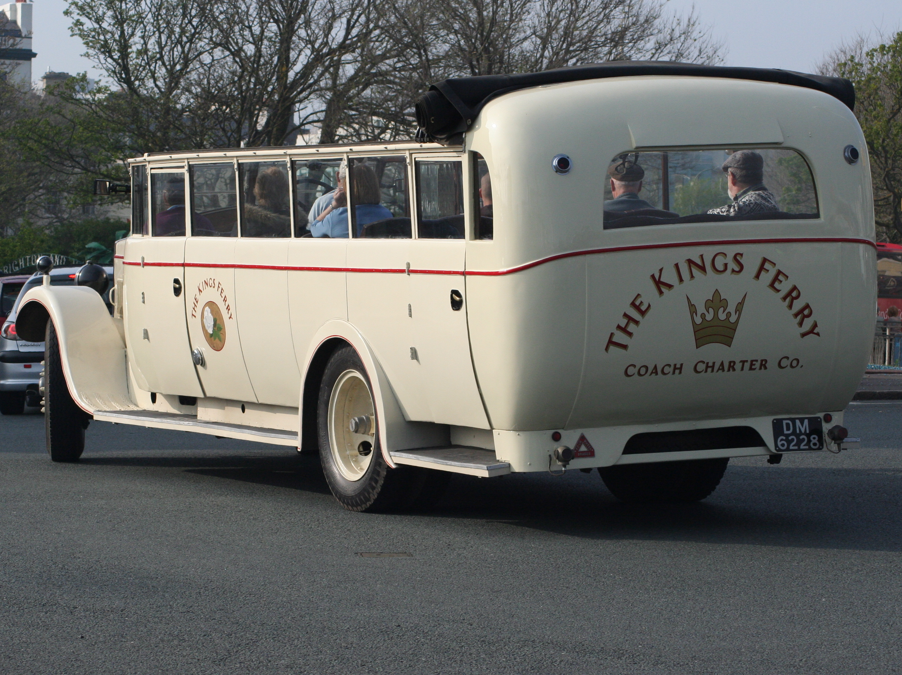 1929 Burlingham bodied Leyland Lioness charabanc